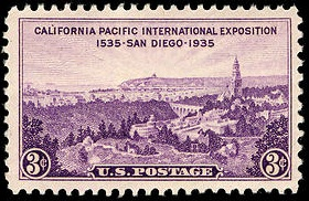 Francisco Vasquez de Coronado found the Pacific Southwest exploring for Spain. On the 400th anniversary a 3-cent stamp was issued May 29, 1935. The California Pacific International Exposition is shown with Point Loma and San Diego Bay in the background.